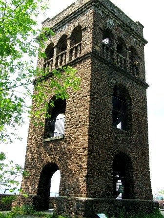 Photograph of Poet's Seat Tower in Greenfield, Massachusetts